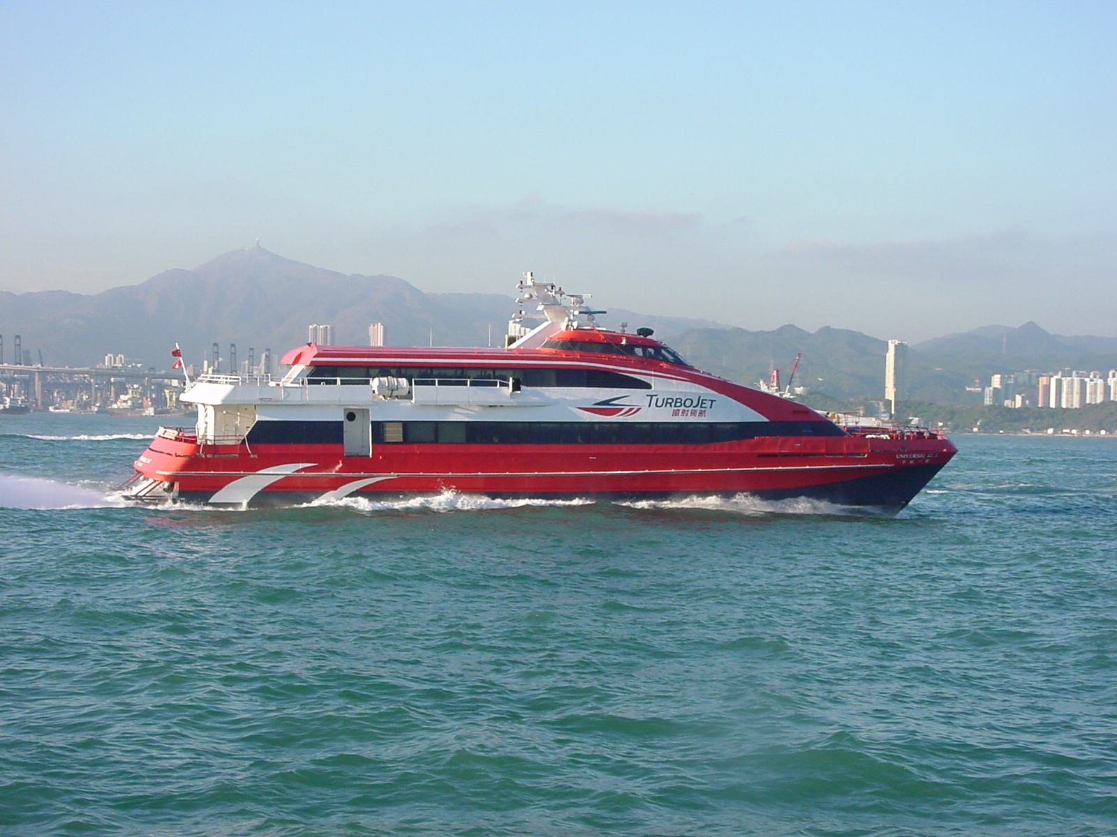 TurboJET's Universal MK I Flying Cat catamaran